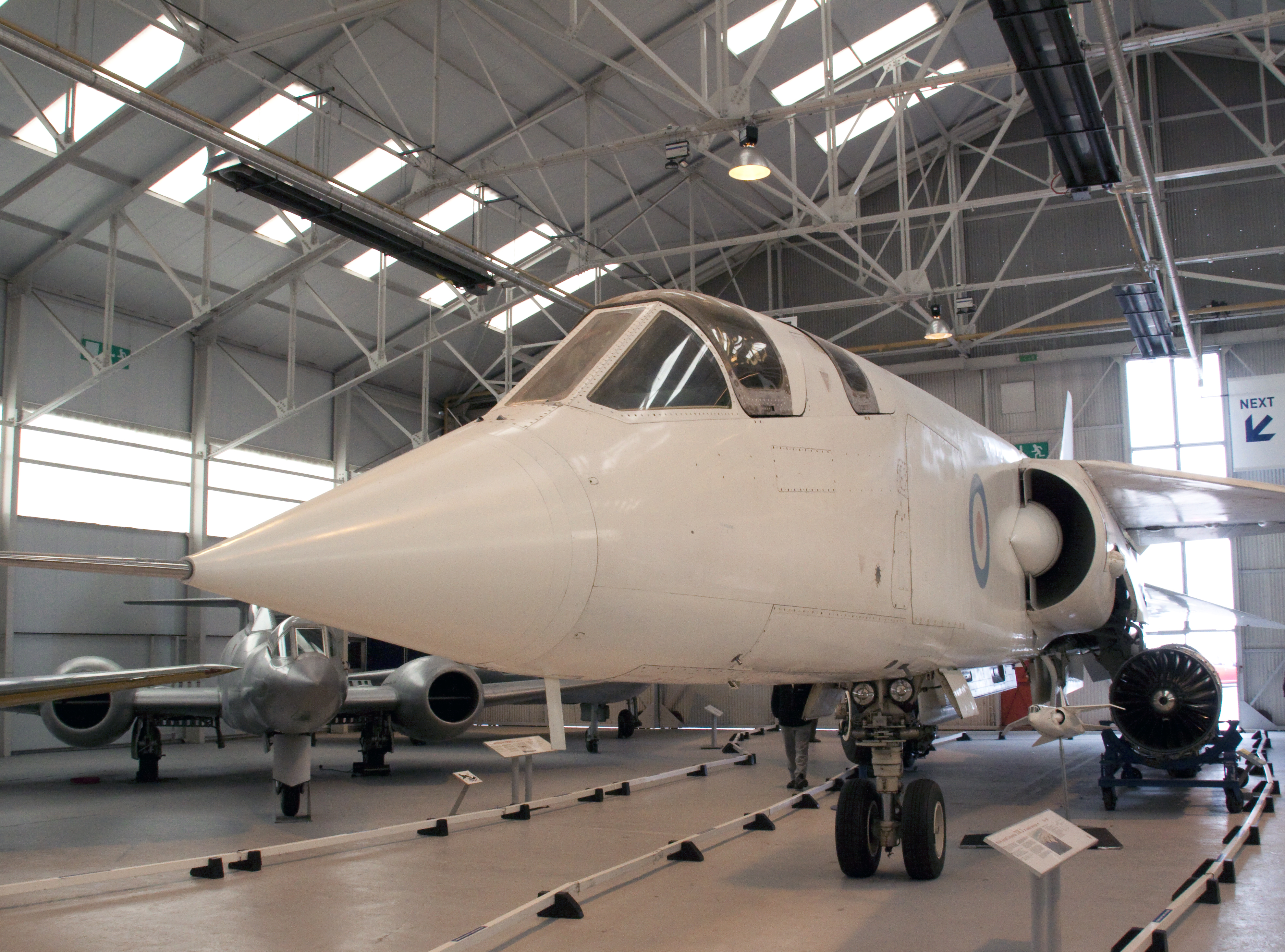 TSR2 1